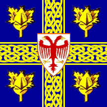 Flag of the city and municipality of Leskovac in Serbia